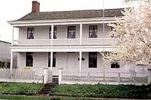 National Park Service site on the Monteith Historic District